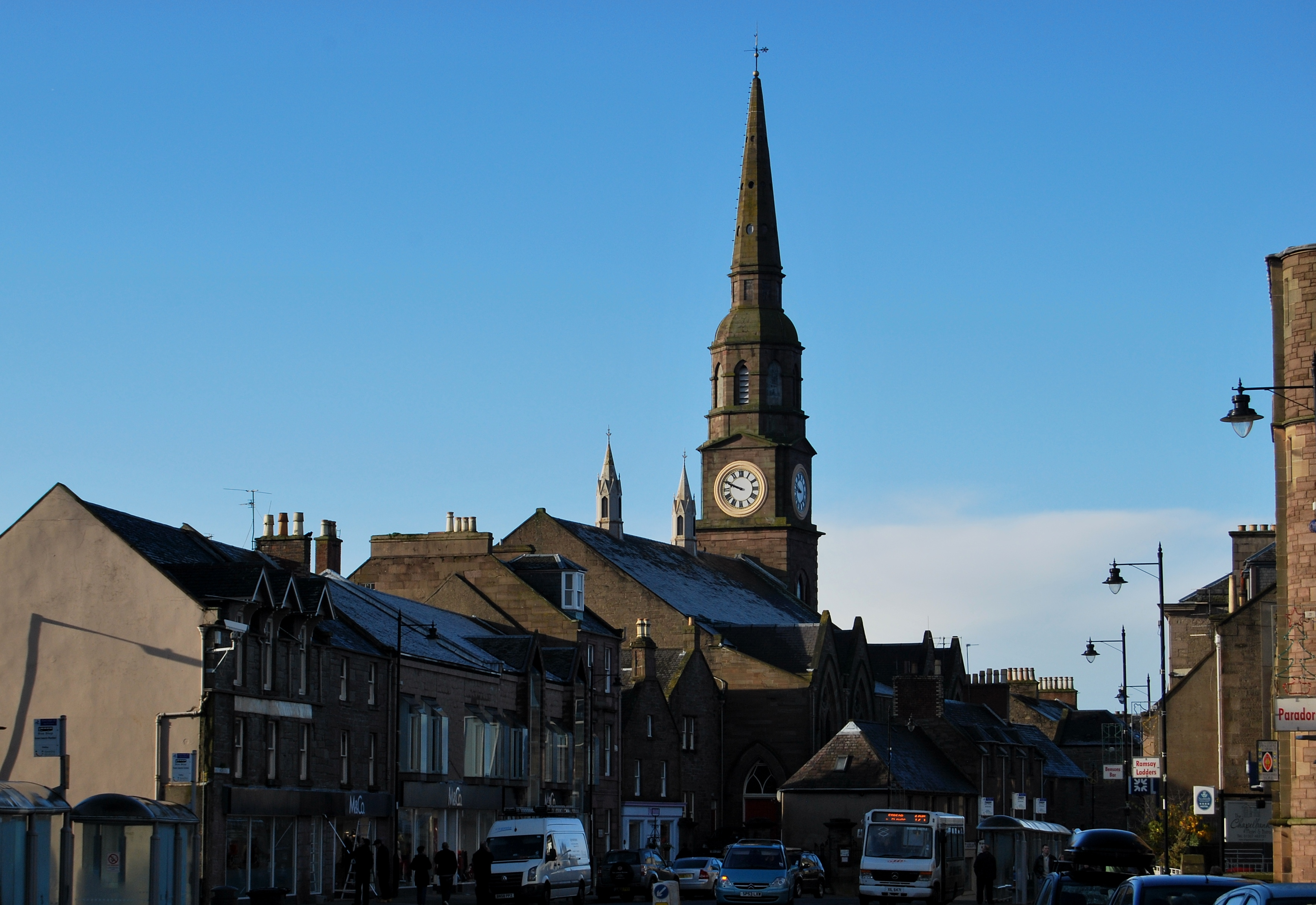 Forfar High Street with East and Old Parish Church Scotland